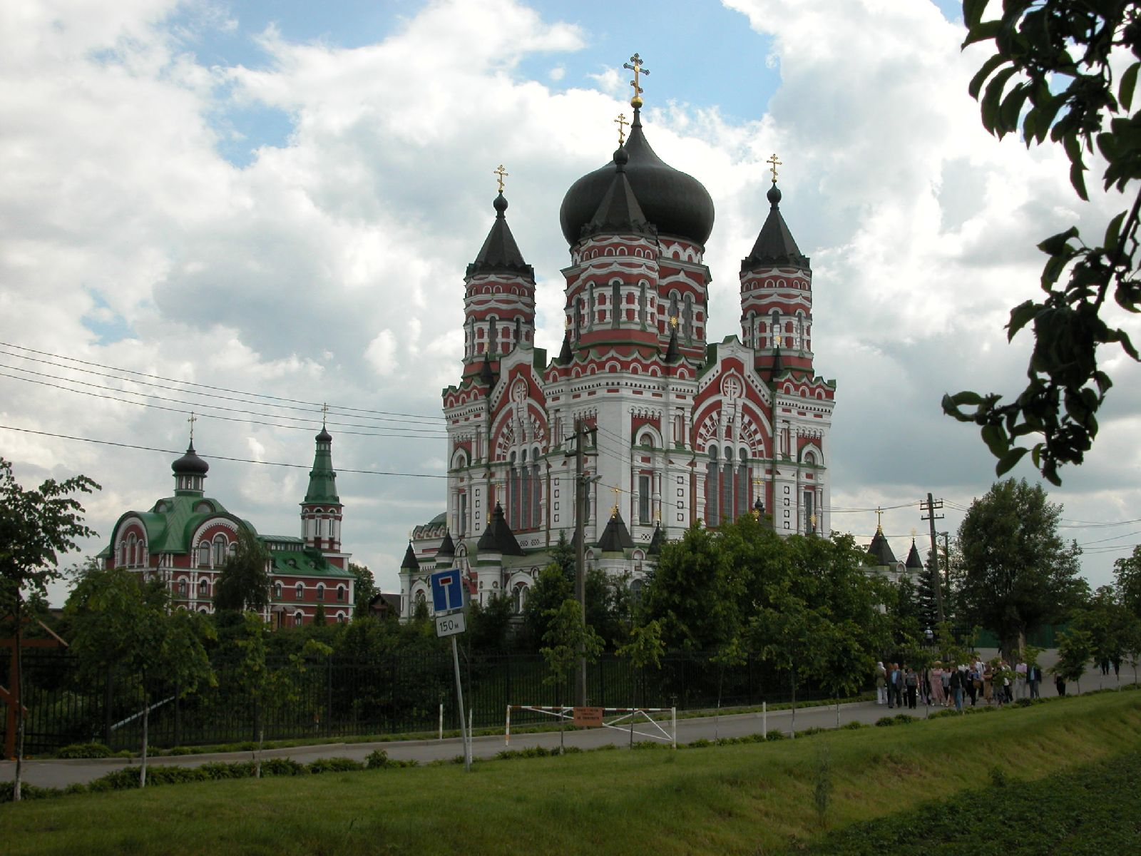 St. Panteleimon's Cathedral in Kiev